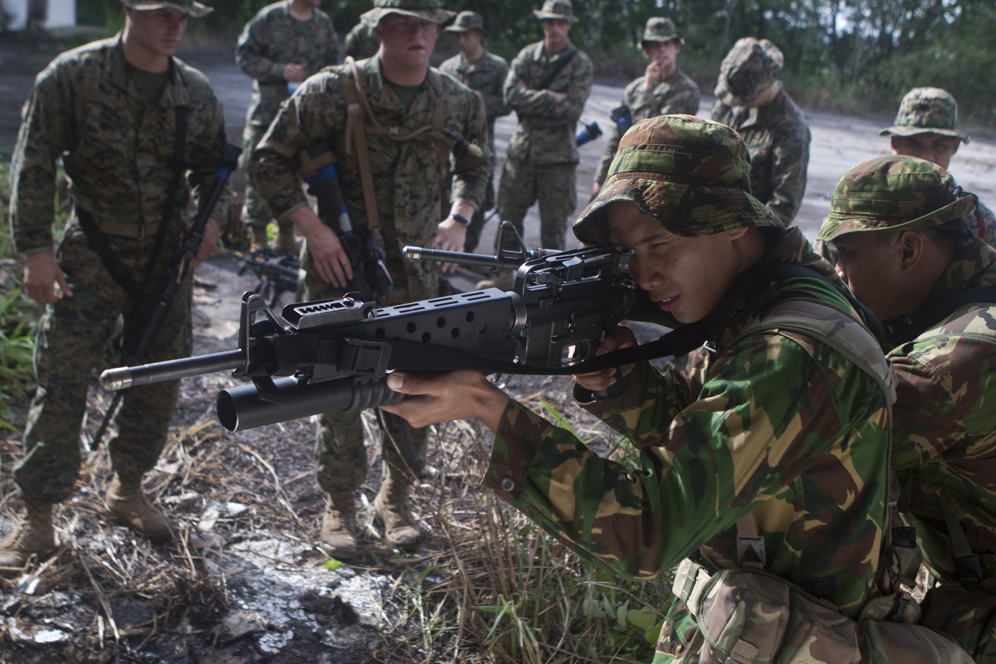 20100503-M-4896B-002 RIMBA AIR BASE, Brunei - A soldier from the Royal Brunei Landing Force enters a room to search and clear it after Marines, from the Landing Force participating Cooperation Afloat Readiness and Training (CARAT) Brunei 2010, taught the fundamental techniques of Military Operations in Urban Terrain (MOUT) May 3. More than 45 Marines from the LF trained with RBLF soldiers as part of LF CARAT-2010, a series of bilateral exercises held annually in Southeast Asia to strengthen relationships and to enhance force readiness. (U.S. Marine Corps photo by Lance Cpl. Colby W. Brown).